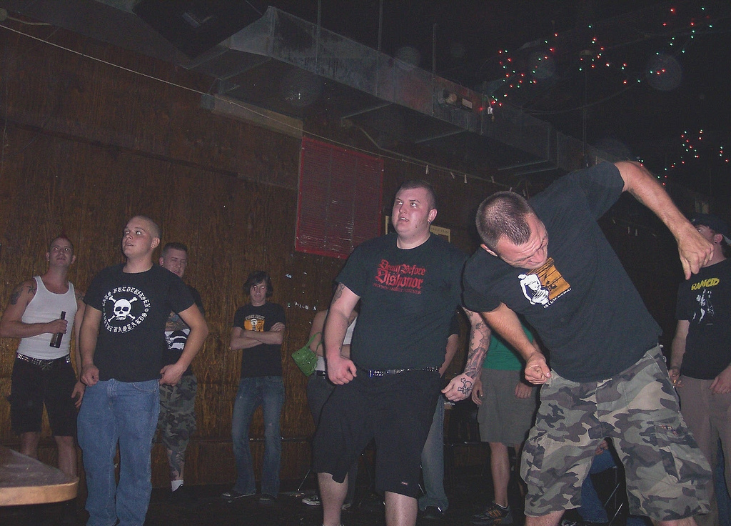 Tear At the Walls, Mojo's, COMO, Sept. 27, 2005